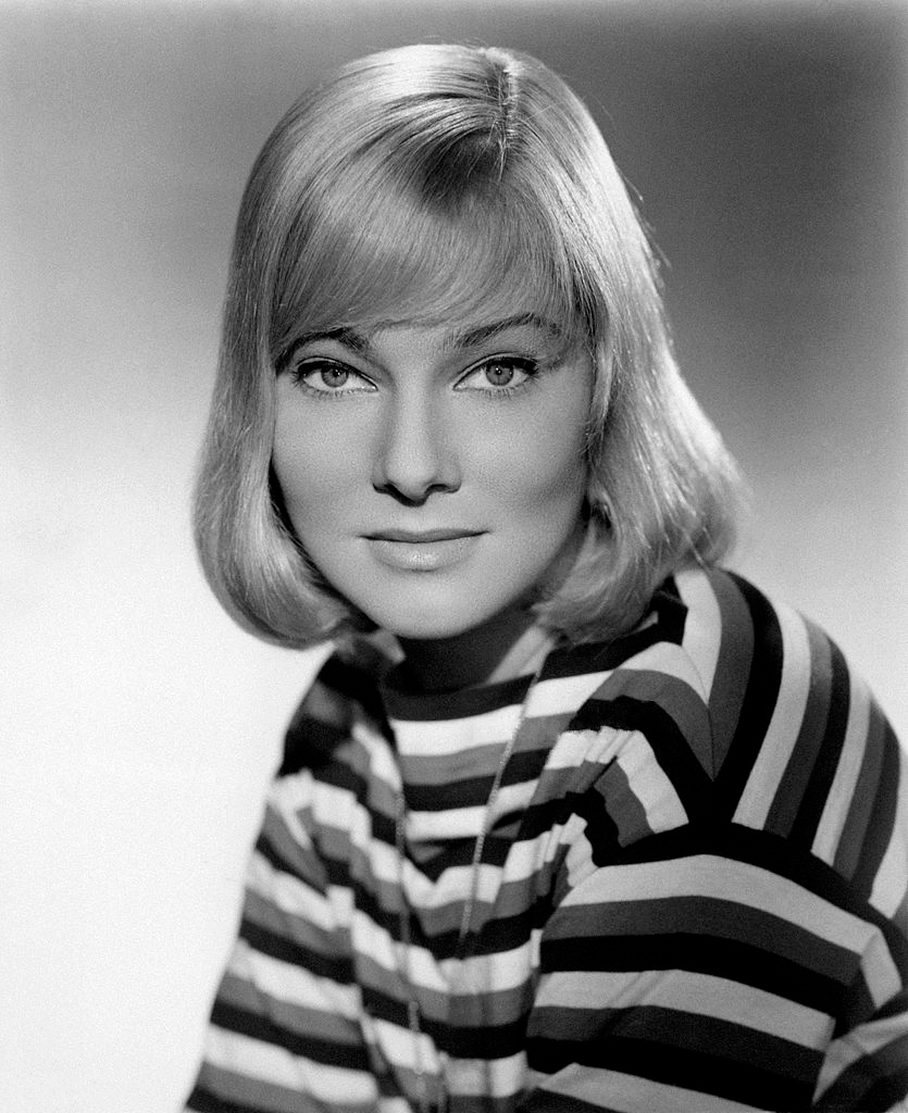 May Britt